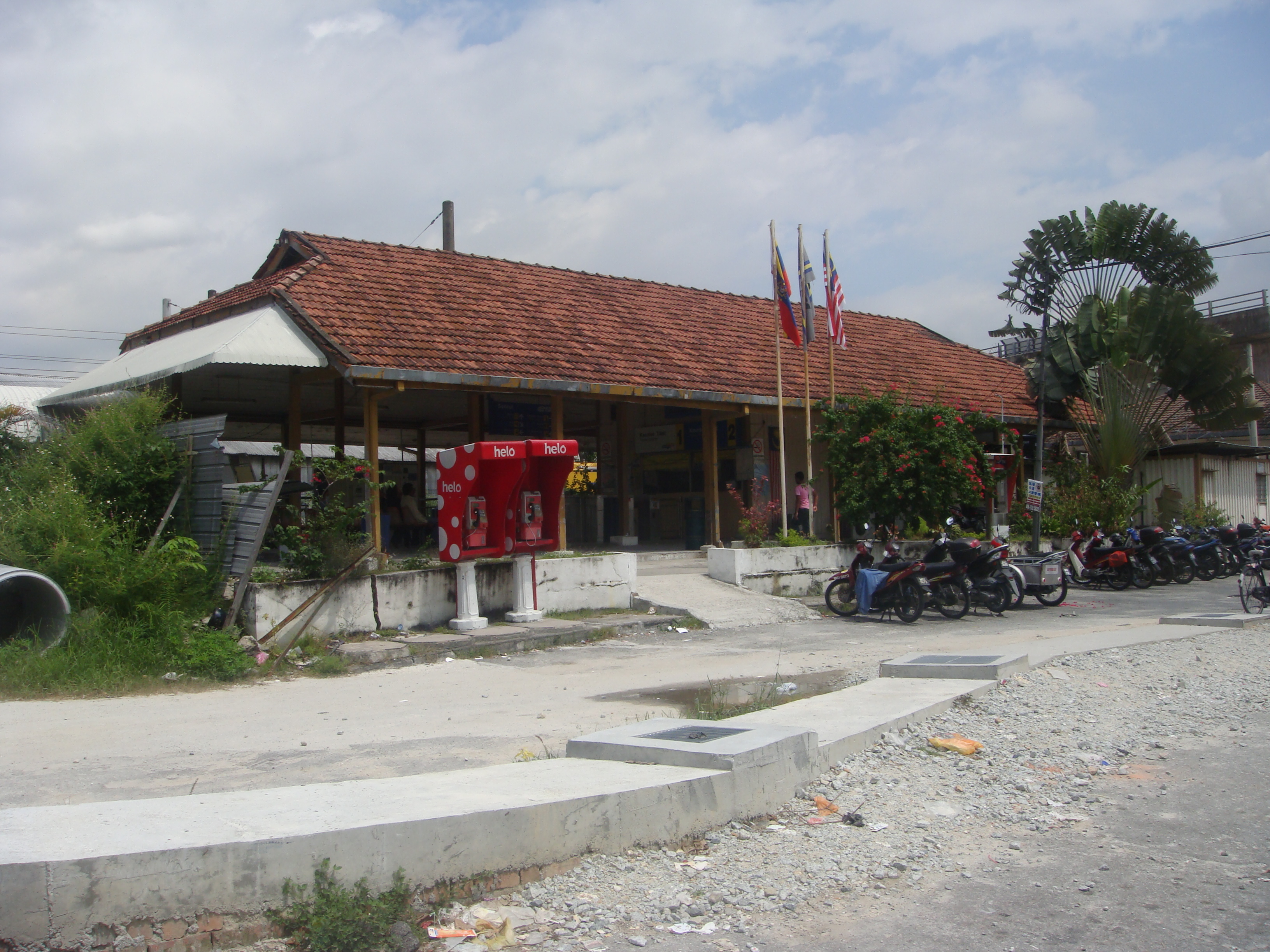 Sentul Railway Station